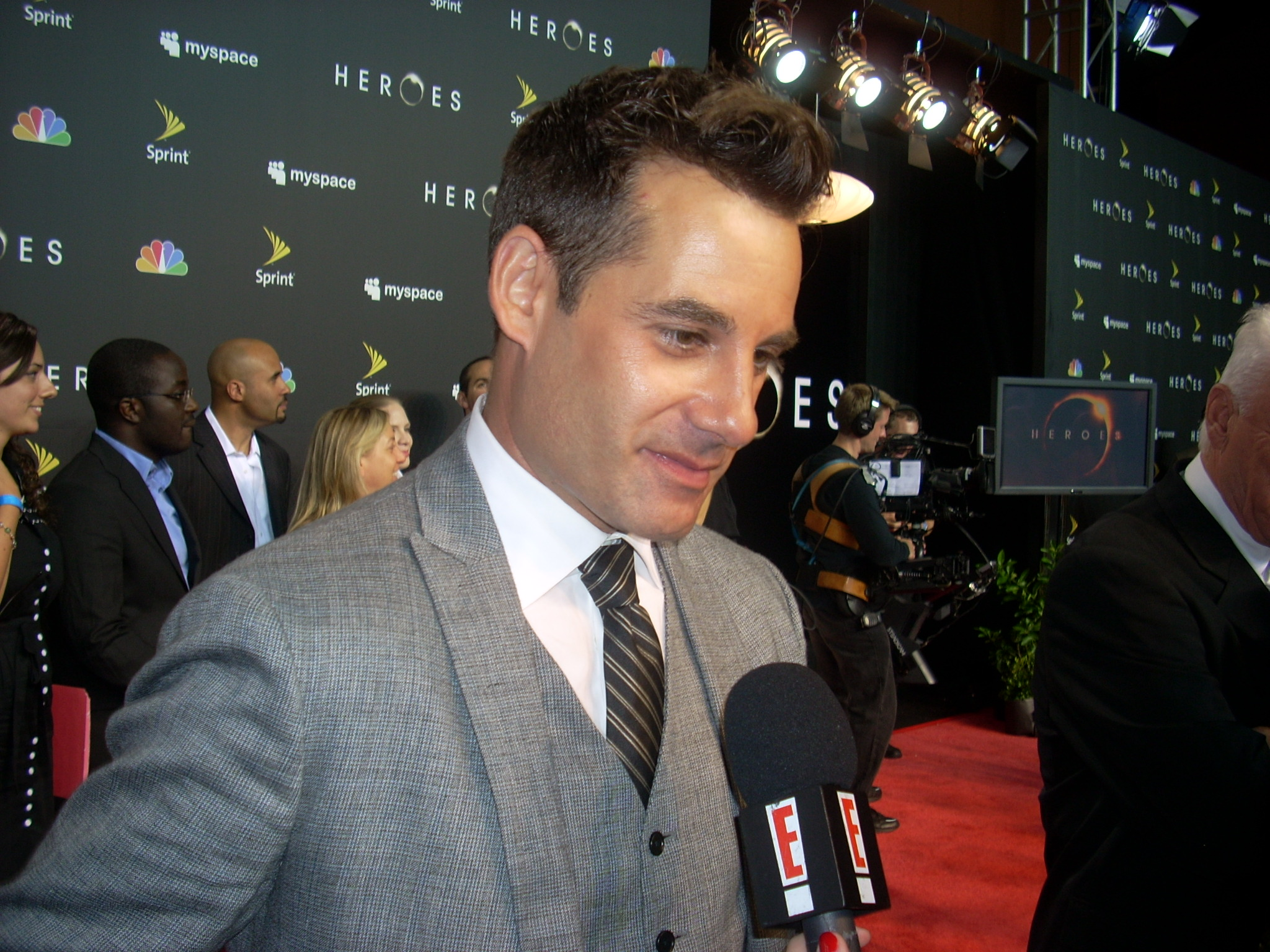 Adrian Pasdar at Season Three Premiere Party, Edison L.A., Downtown Los Angeles - Sept. 7, 2008